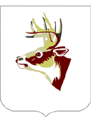 395th Infantry Regiment Unit Arms. The 395th Infantry, Organized Reserves, was organized in 1921. It had its headquarters at Franklin, Pennsylvania, and drew its personnel from Pennsylvania. The shield is silver, the old color of Infantry. The buck's head was used to indicate the allocation of the organization to the mountainous section of Pennsylvania, where deer abound. During WW2 the 395th Regt. was part of the 99th. Infantry Division along with the 393 and 394 Regiments. The 99th saw action in the "Battle of the Bulge" and at the Rhine river crossing at Remagan.